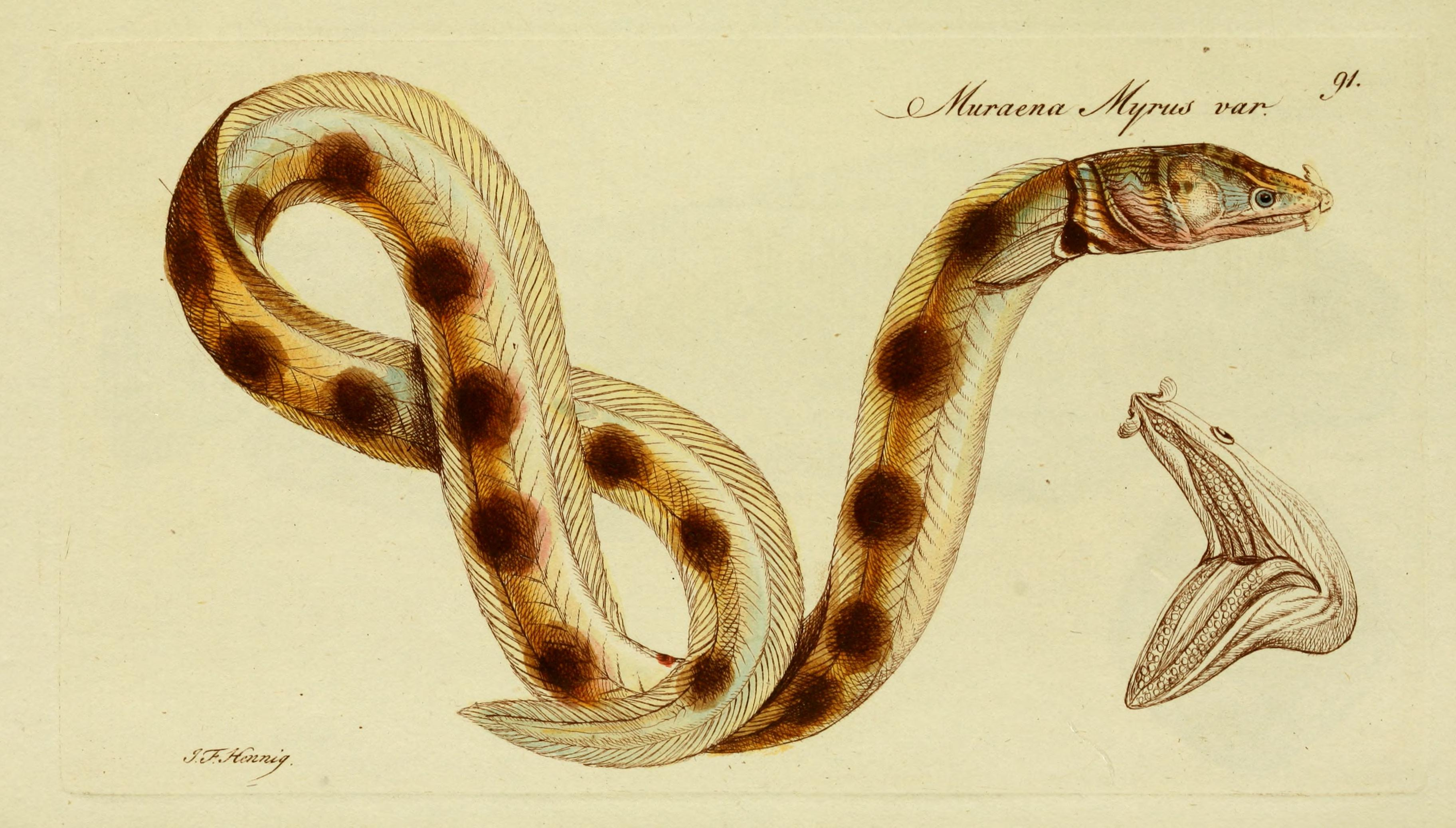 Title: M.E. Blochii ... Systema ichthyologiae iconibus CX illustratum Year: 1801 (1800s) Authors: Bloch, Marcus Elieser, 1723-1799 Schneider, Johann Gottlob, 1750-1822, ed Hennig, J. F. (Johann Friedrich), b. ca. 1778 Subjects: Fishes Ichthyology Publisher: Berolini : Sumtibus auctoris impressum et Bibliopolio Sanderiano commissum Text Appearing Before Image: im iwifif Text Appearing After Image: I\ ■^